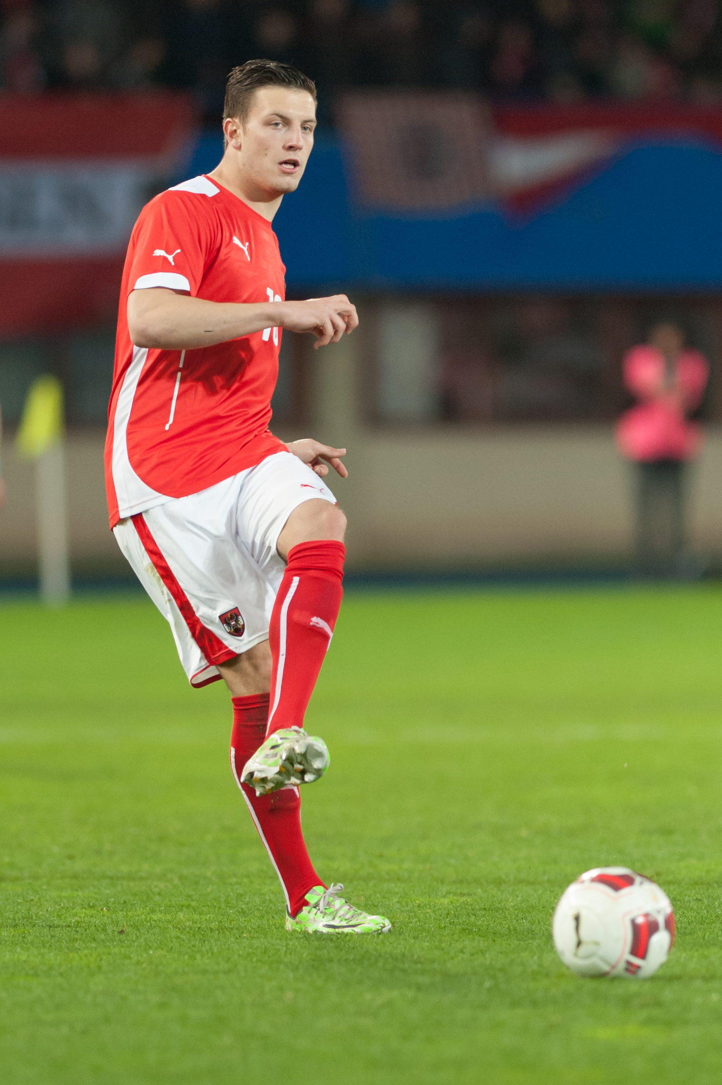 International friendly Austria vs. Bosnia and Herzegovina, 2015-03-31, Vienna